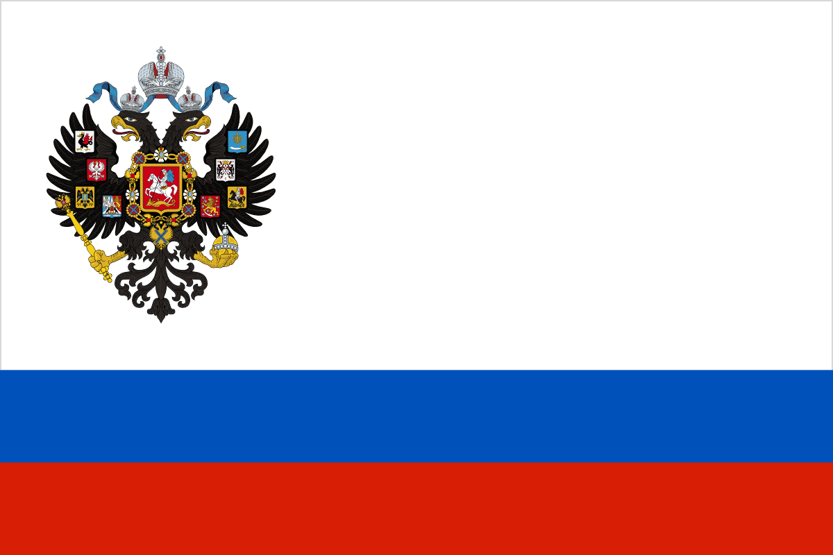 Flag of the Siberian Specific Department in Nakhodka Haven, 1869-1873.